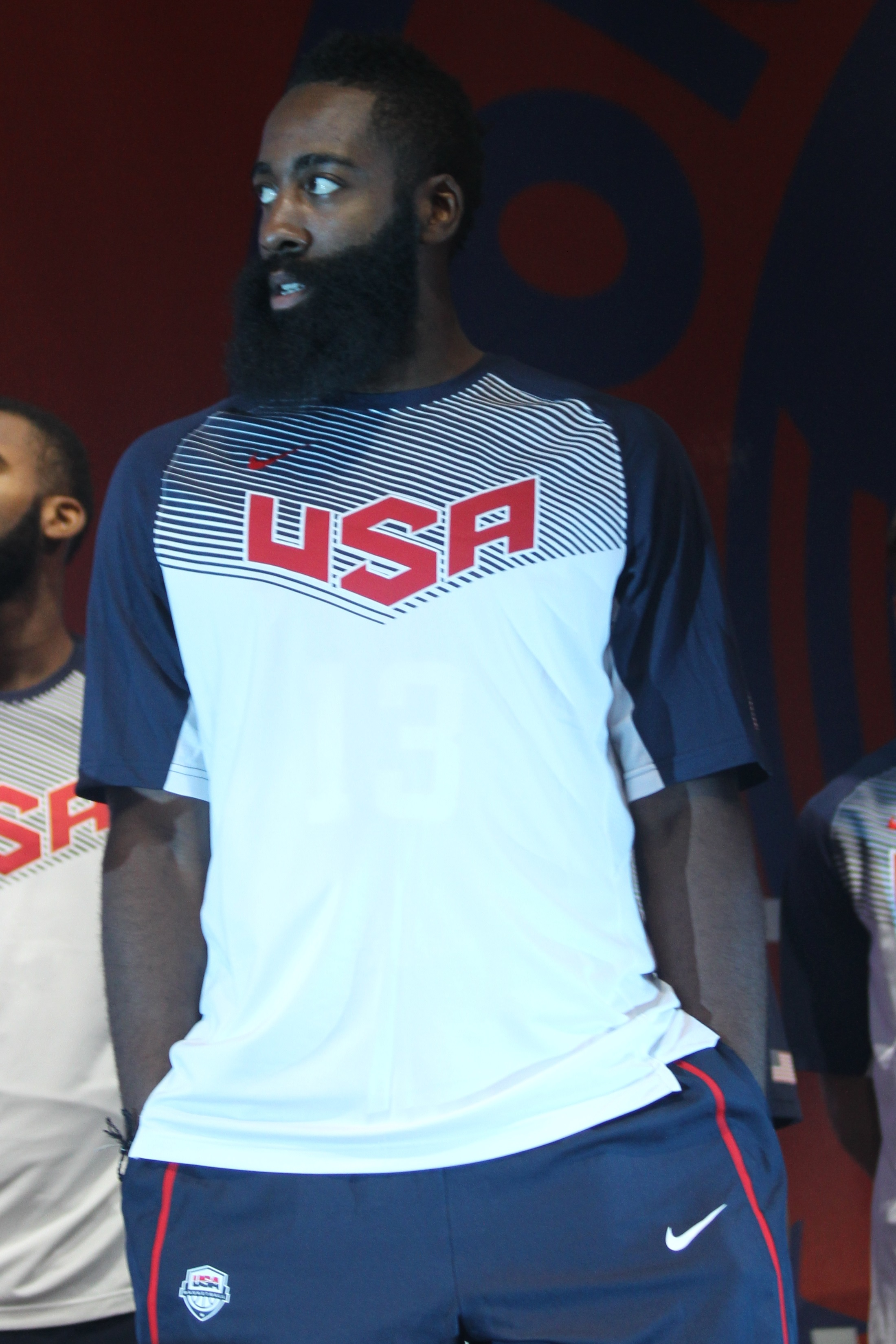 James Harden at 2014 World Basketball Festival at 63rd Street Beach in Chicago